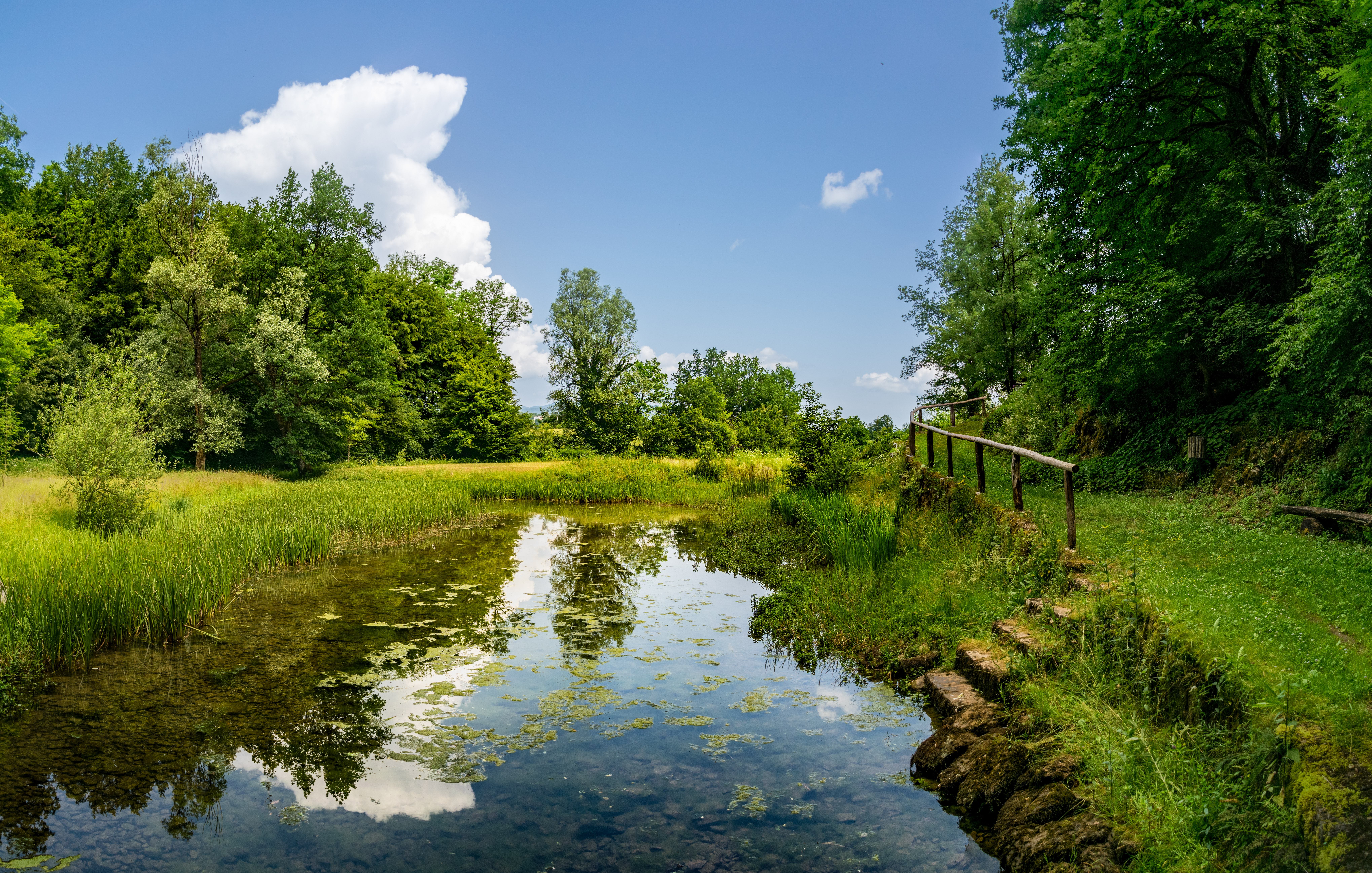 This small stream, called Obrščica, has its source behind the village ob Obrh, near Dragatuš in the municipality of Črnomelj in southeastern Slovenia, a region called Bela krajina.